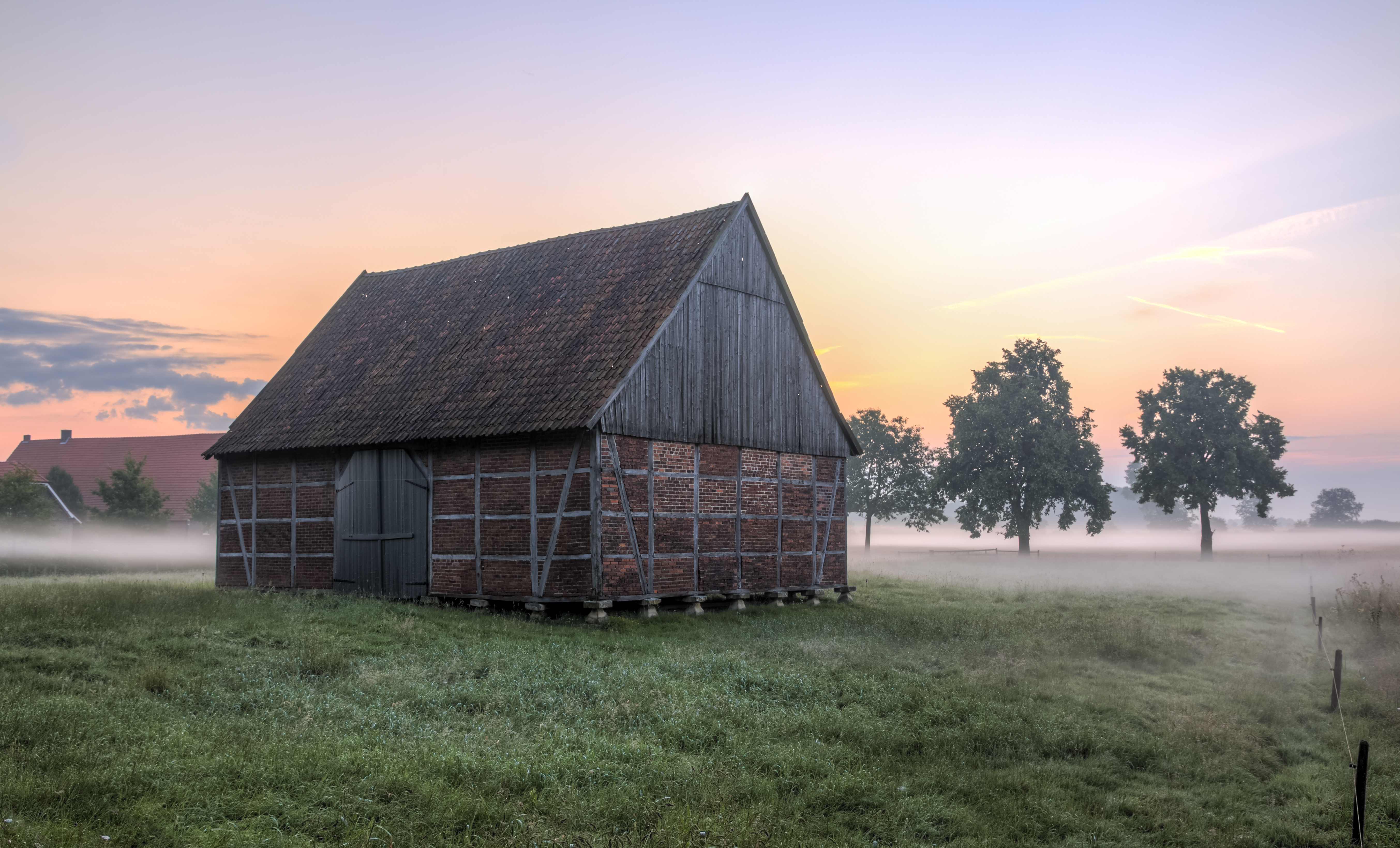 Mäusescheune, Rödder, Kirchspiel, Dülmen, North Rhine-Westphalia, Germany This image shows a heritage building in Germany, located in the North Rhine-Westphalian city Dülmen (no. 84).